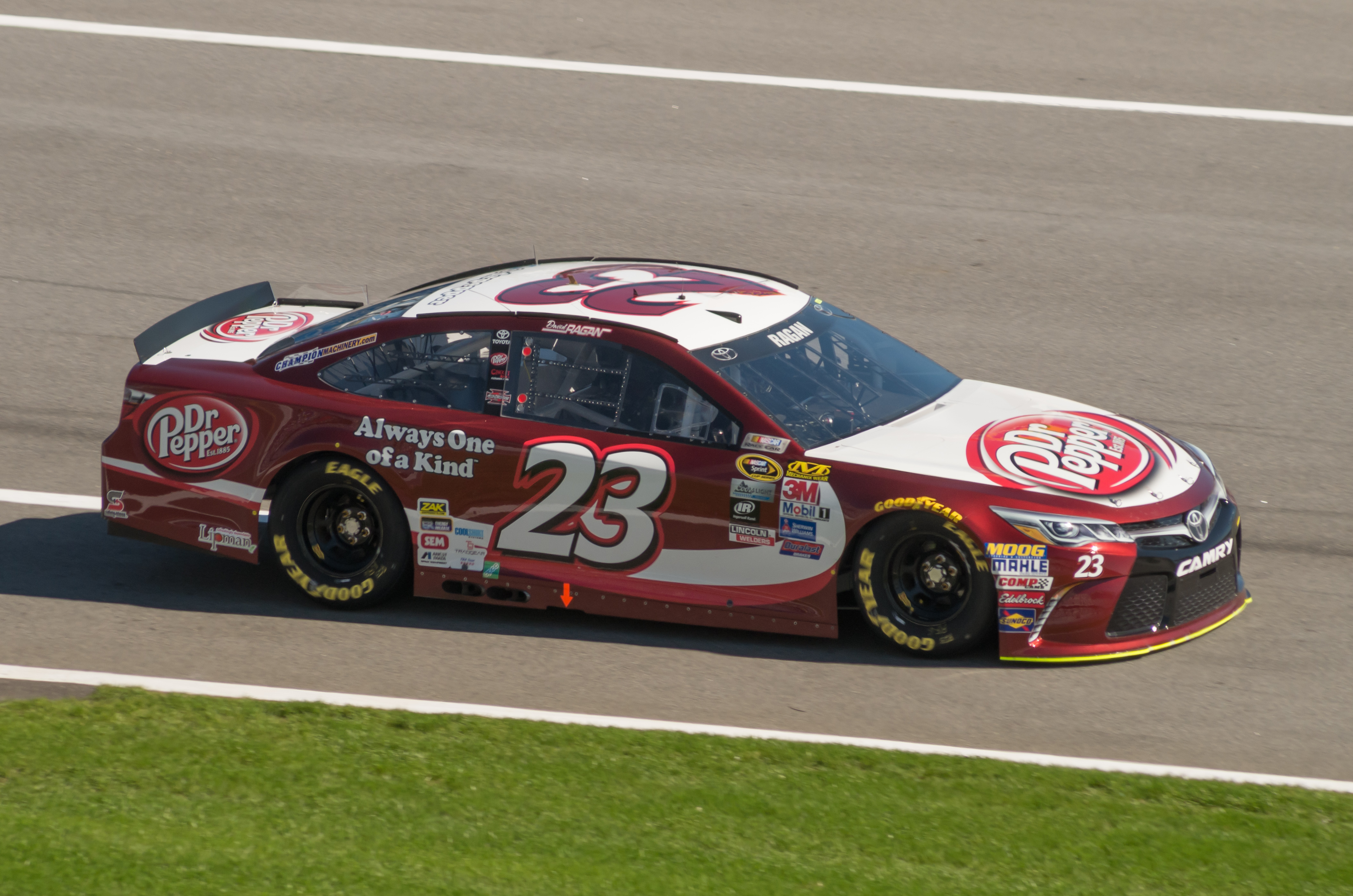 David Ragan